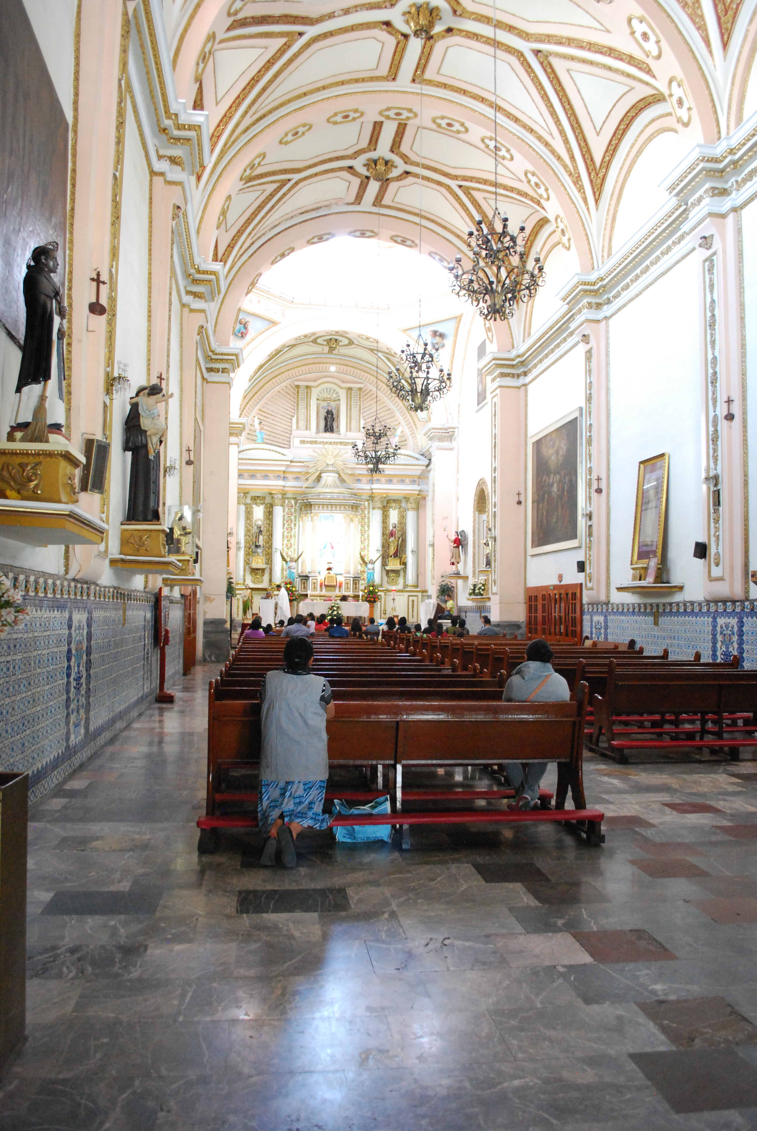 Interior of the San Marco Church in the historic center of Puebla, Mexico